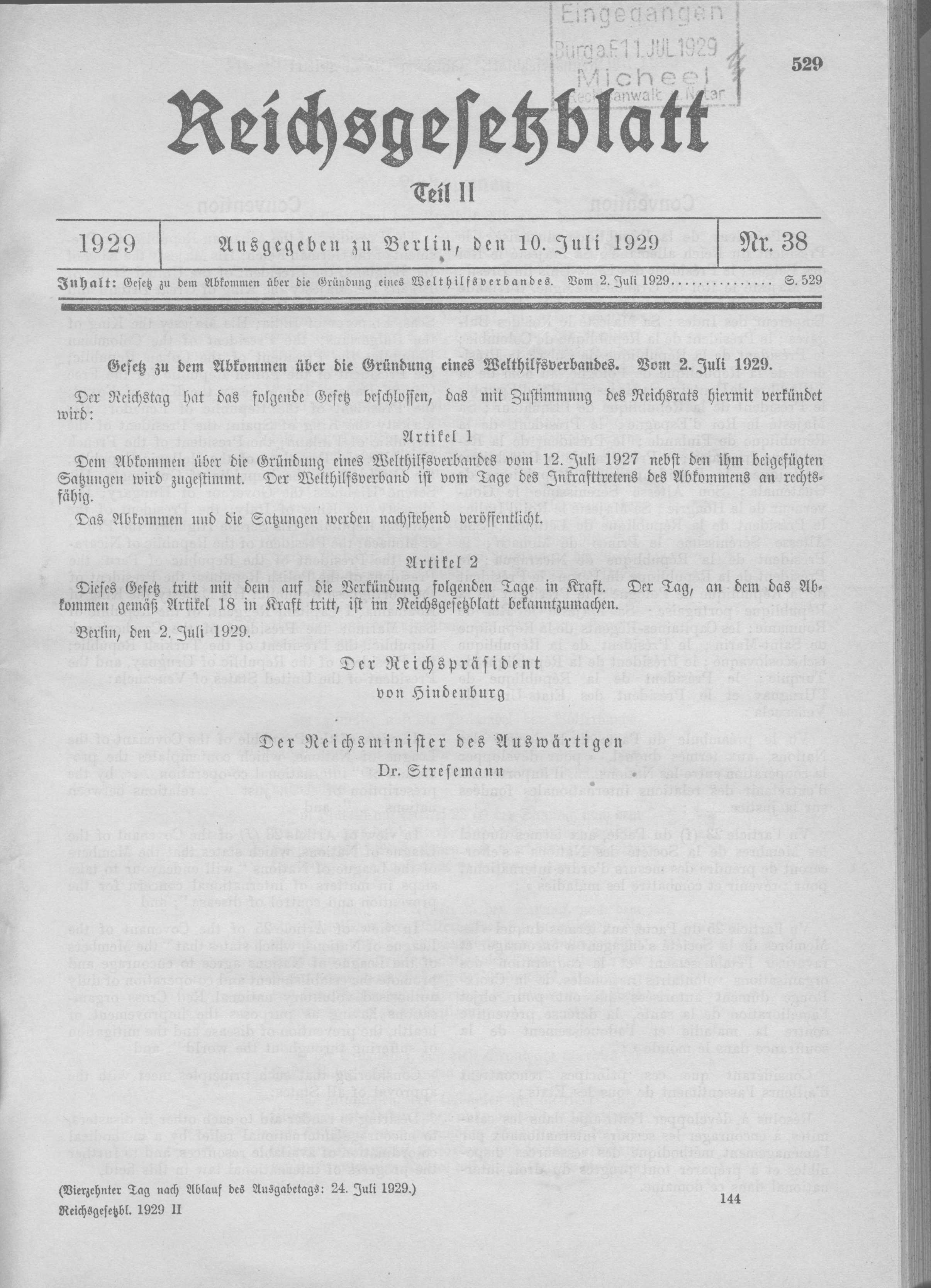 Scan from the Imperial Law Gazette of Germany, 1929, part 2